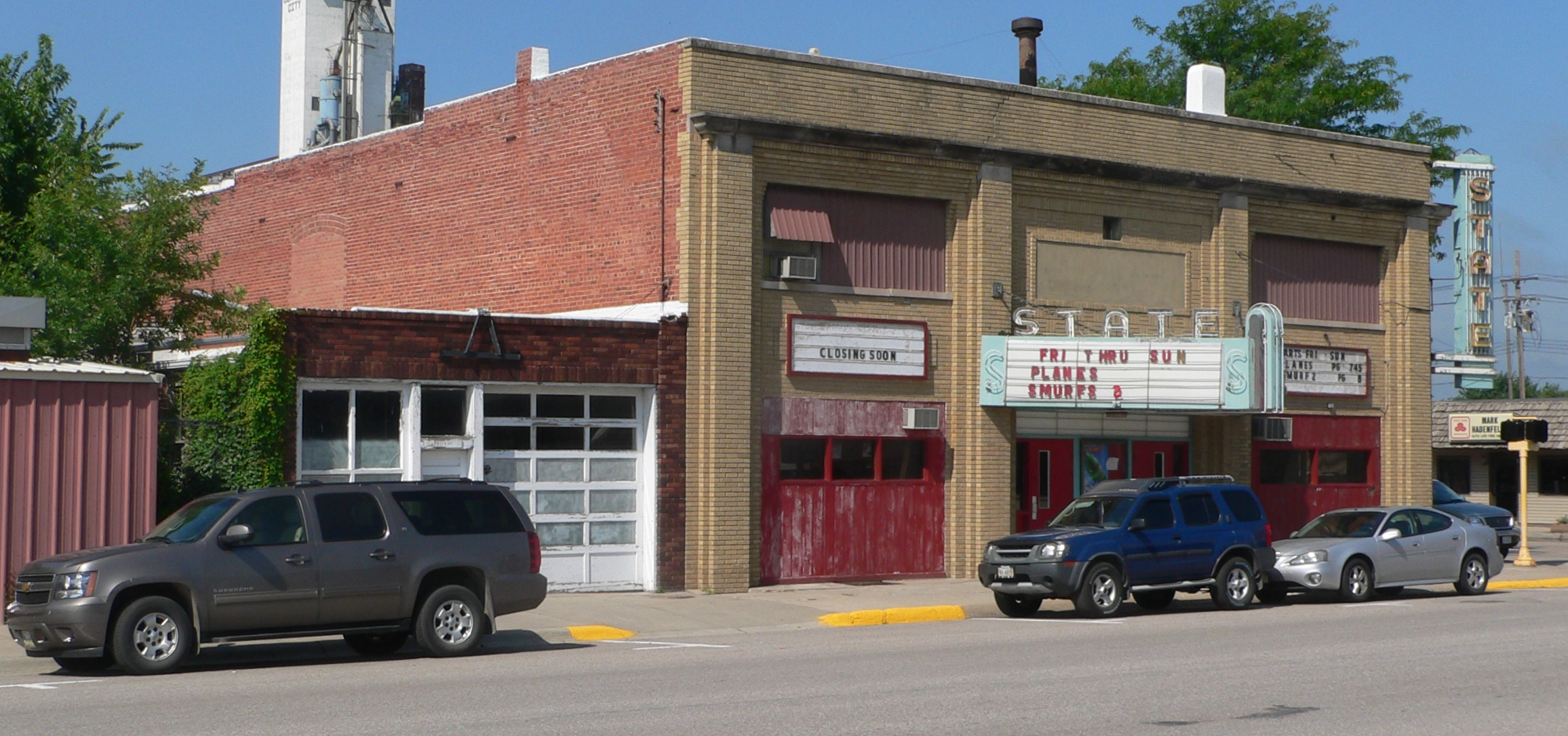 State Theater in Centra City, Nebraska; seen from the southeast.